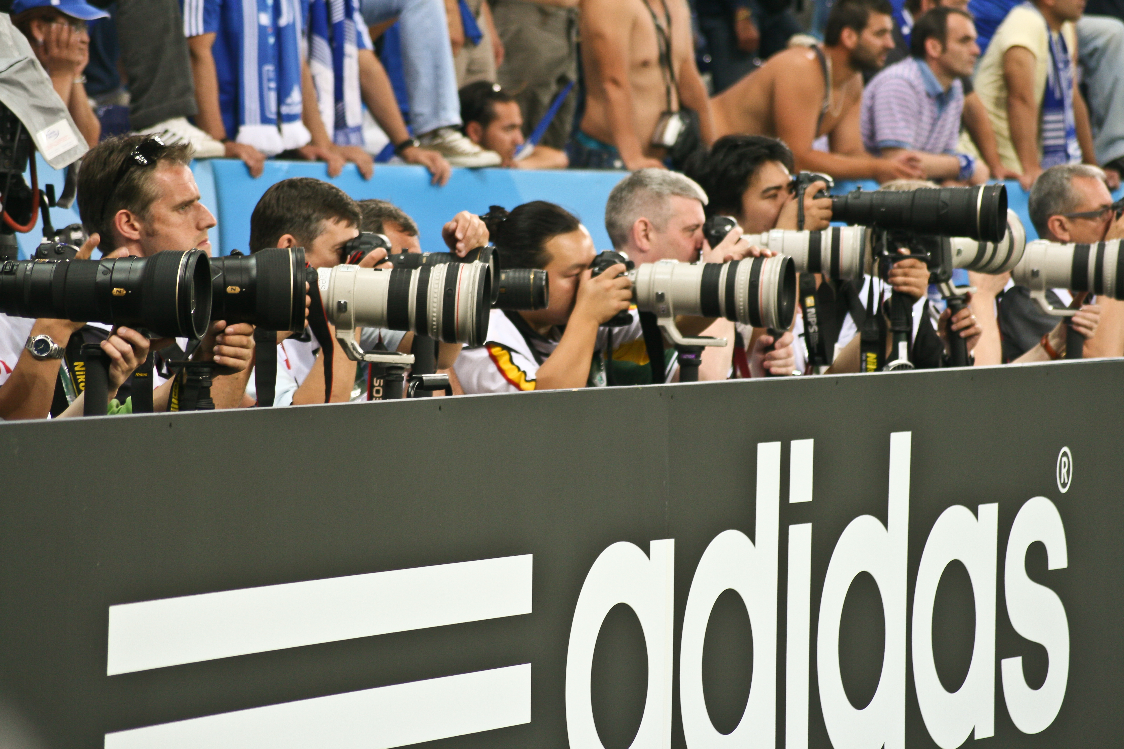 Greece vs Sweden in Salzburg during UEFA Euro 2008